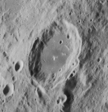 Oblique view of Mercurius, on the moon.